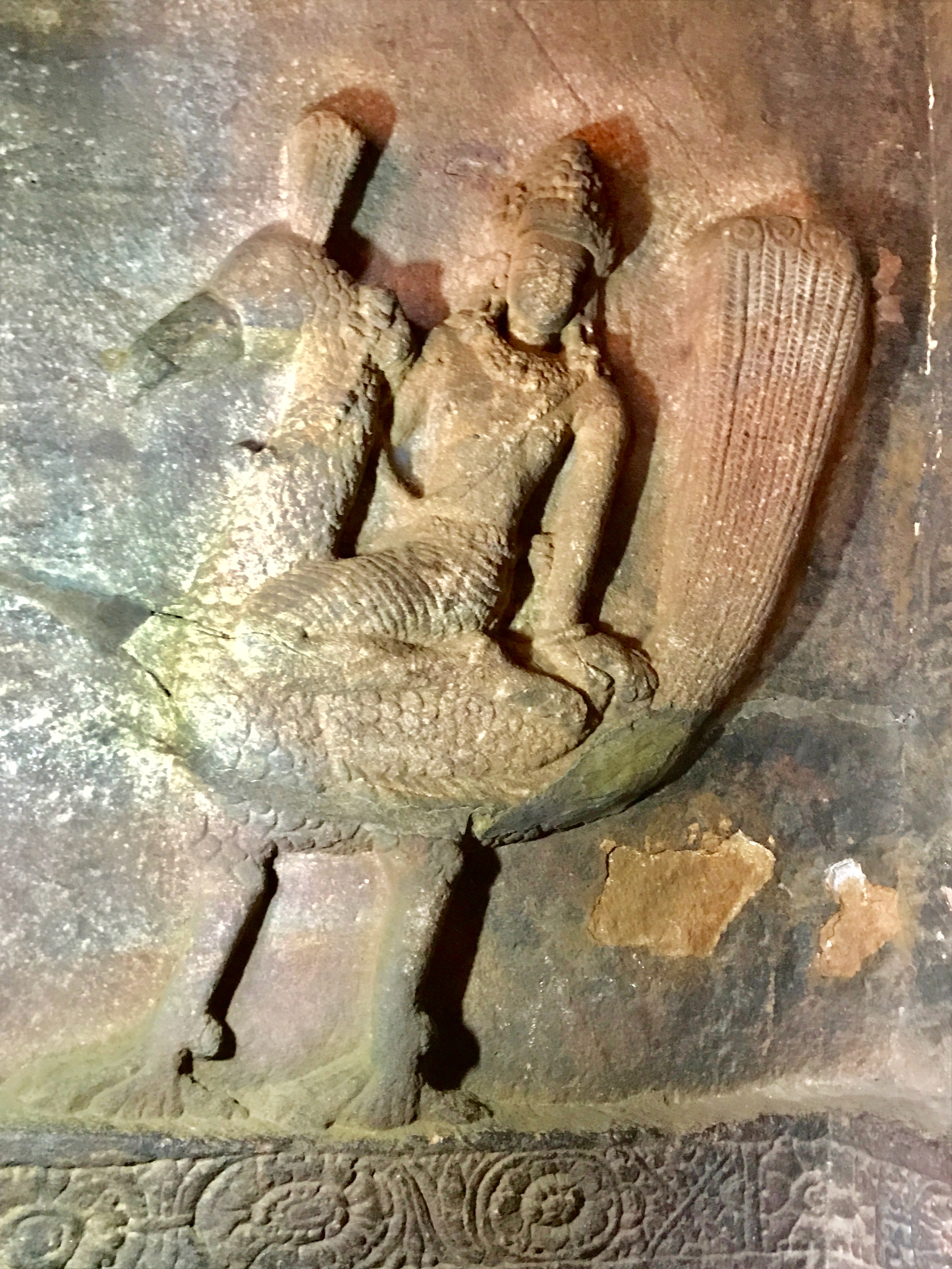 Cave 1 at Badami is dedicated to Shiva, yet reverentially displays themes and ideas of Vaishnavism and Shaktism. Further, the cave also presents the Hindu equivalence and interdependence concepts of Harihara (fused equal Shiva-Vishnu) and Ardhanarishvara (fused equal masculine-feminine). The temple also has many panels of kama / mithuna scenes of couples in courtship and intimacy. Badami, also mentioned as Vatapi, Vatapipura and Vatapinagari in historical texts, was an important ancient and early medieval era capital. It is the site of the earliest Hindu cave temples whose date can be established with certainty. The earliest cave temple (Cave 3, Vaishnavism) is from the 6th century, with Cave 1 (Shaivism) built shortly thereafter. Cave 2 (Vaishnavism) is dated to the 7th century. Cave 4 features theology and ideas of Jainism, built after the first three. The Badami region is home to numerous medieval era Hindu and Jain temples and monuments. It also has artwork that seem like Buddhist monuments but the syncretic nature of the artwork make them difficult to categorize as belonging to Buddhism or Hinduism.